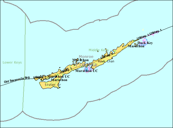 map of the city of Marathon, Florida showing boundaries